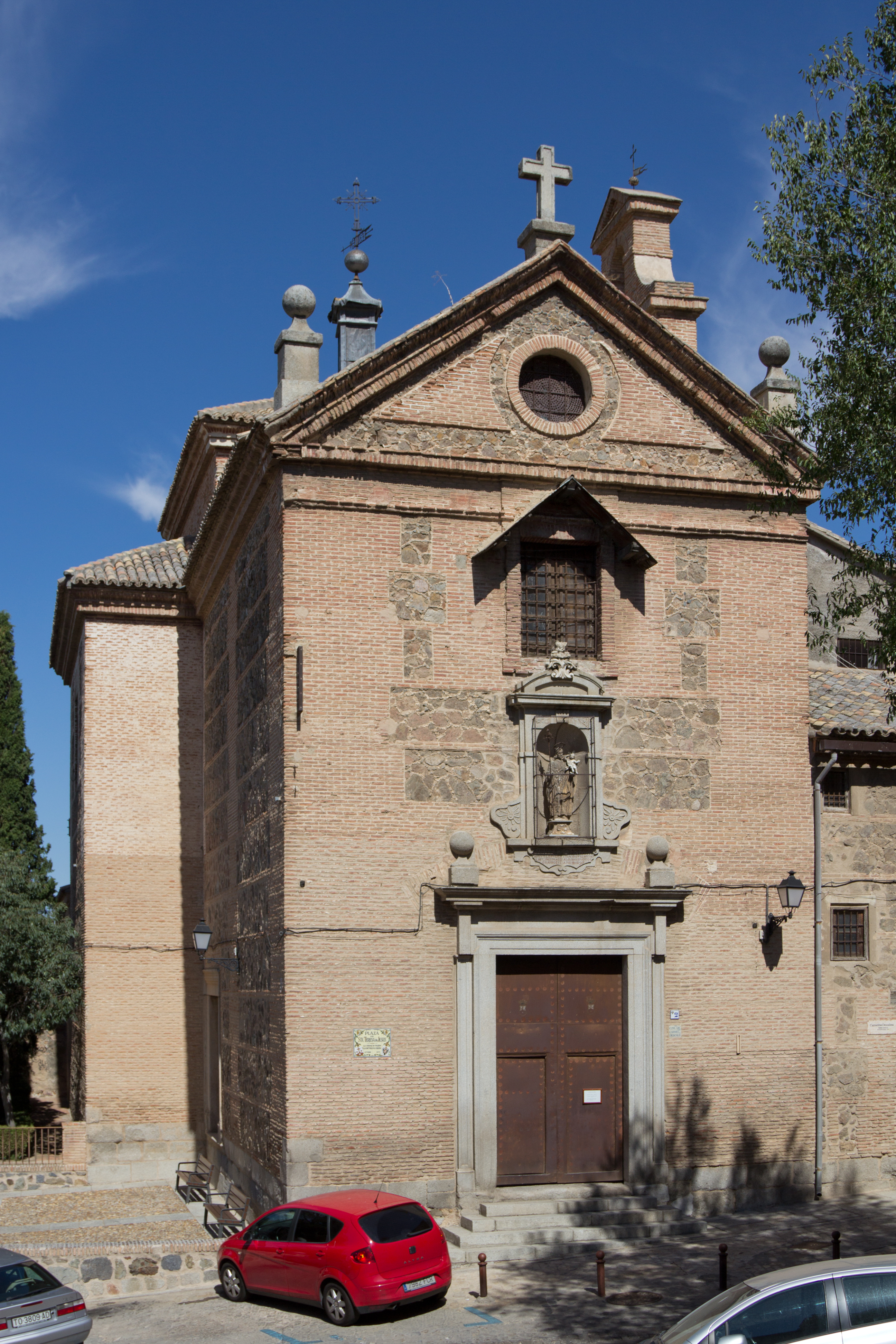 Convent of Carmelitas de San José, Toledo, Spain.